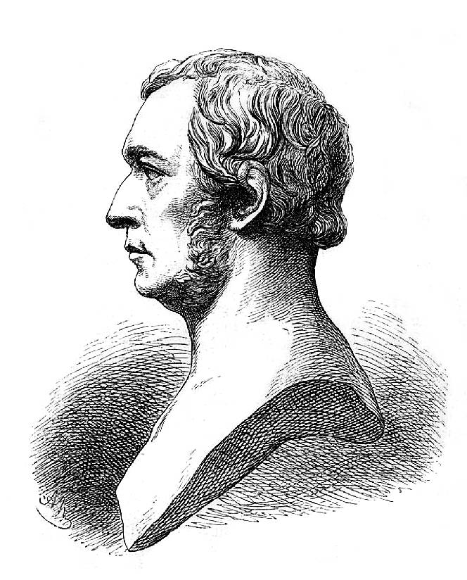 caption: "Wilhelm Sattler."